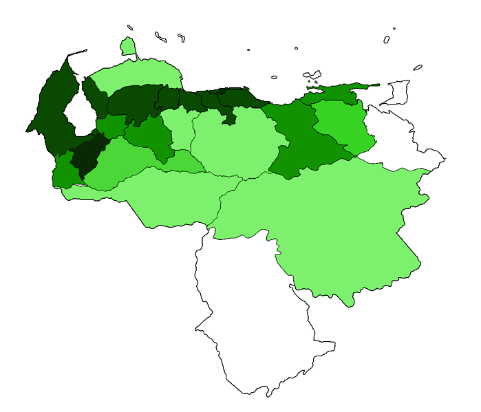 Areas of concentration of Italian immigrants in Venezuela.